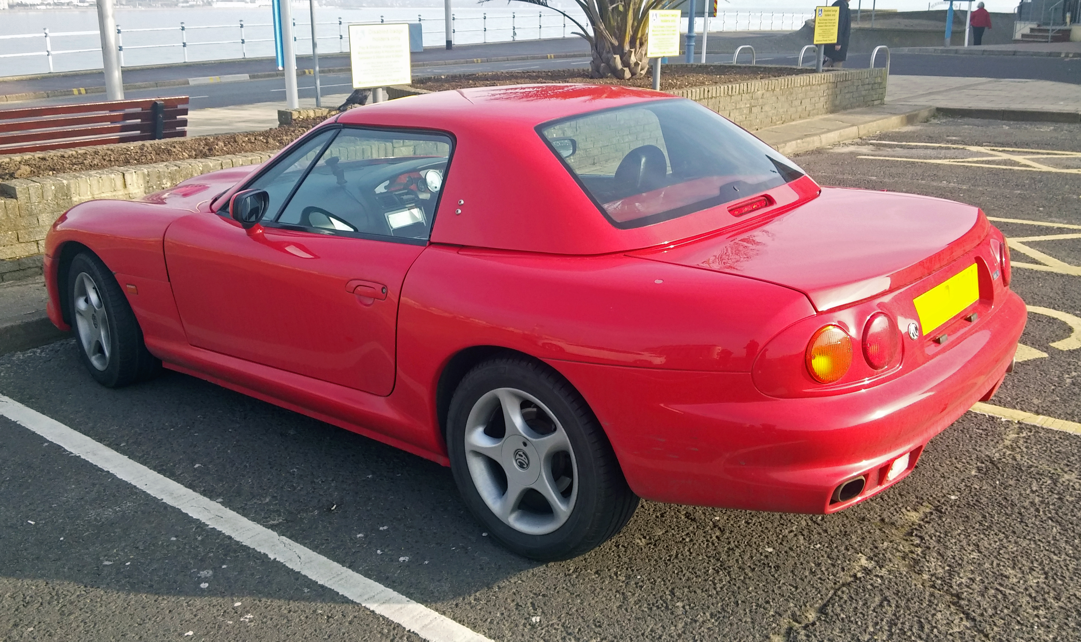 One of only 58 built by A.C. Cars Ltd. This particular car, chassis number SA9AC3029YA621102, was displayed at the 1999 London Motor Show and is one of only a handful built after Alan Lubinsky took over AC Cars in the late 1990s. It was originally fitted with a non-operational Lotus V8 engine; later a 4.6-litre Ford Mustang V8 engine with 305hp was installed. It finally received its SVA in February 2010 and took to the road as a new car. Not quite finished though as it doesn't have a softtop installed - did AC ever develop one, I wonder?